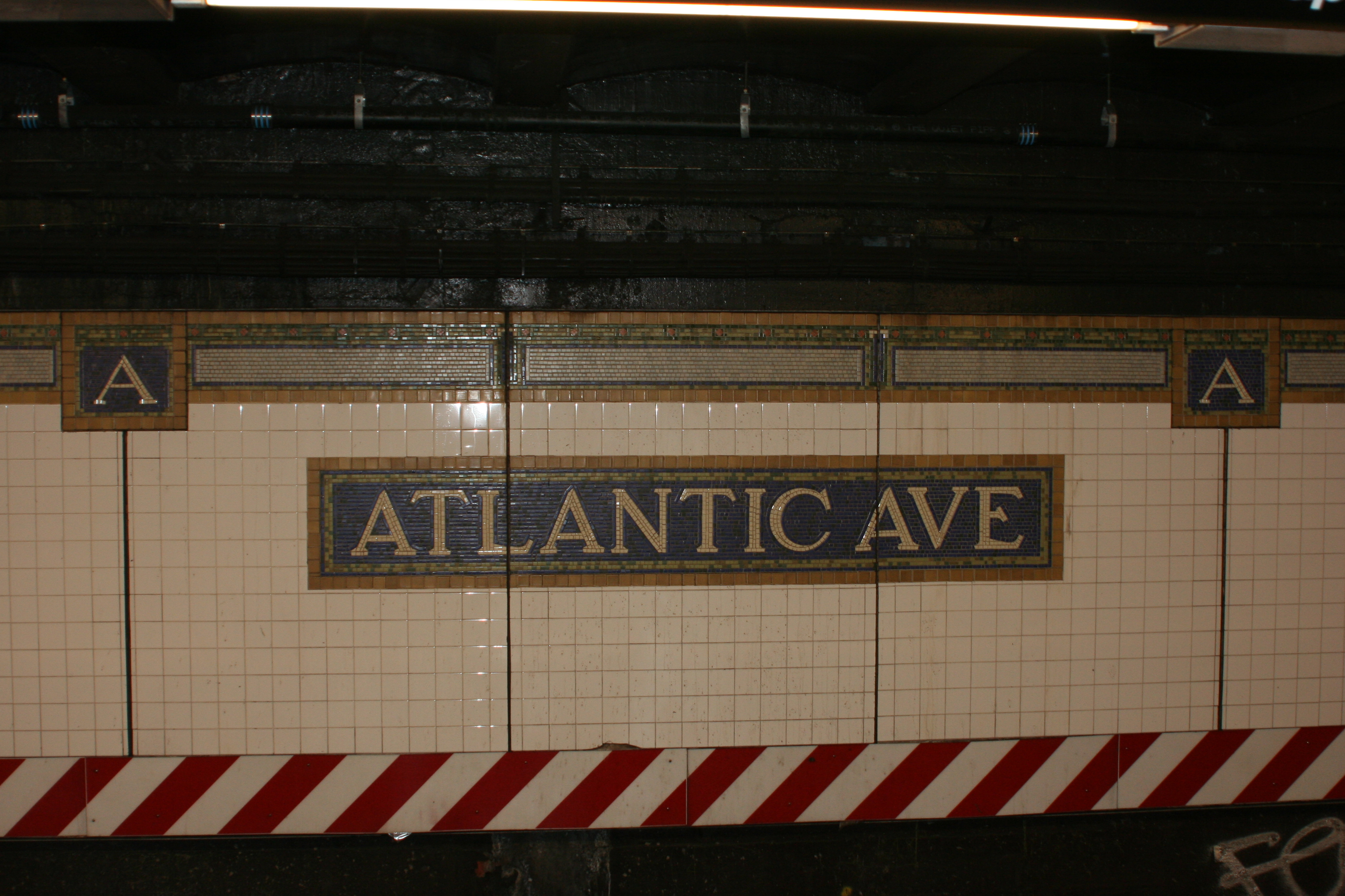 New York City Subway Atlantic Avenue Station tile mosaic